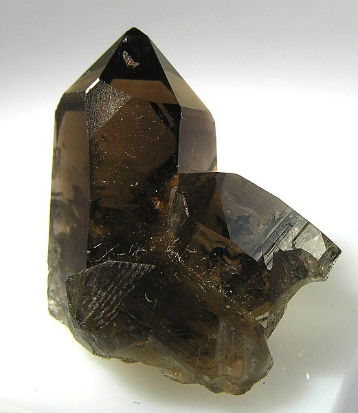 Quartz (Var.: Smoky Quartz) Locality: Switzerland (Locality at ) Size: 2.4 x 2.2 x 1.7 cm. A thumber of Swiss smoky quartz that amply show why they are the standard by which all other smokies are judged - with gem-like clarity and glassy luster.